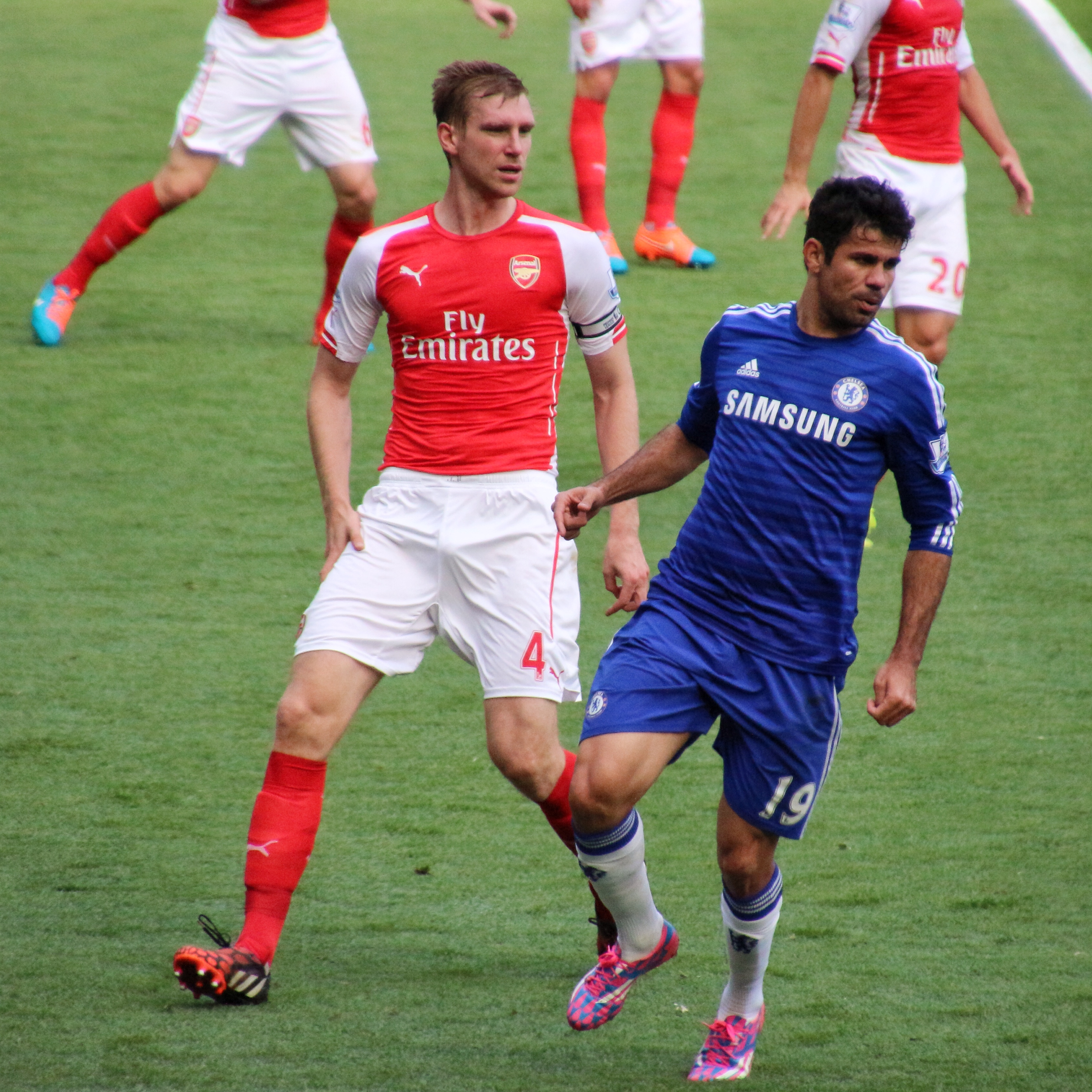 Premier League match between Chelsea and Arsenal at Stamford Bridge on 5 October 2014.